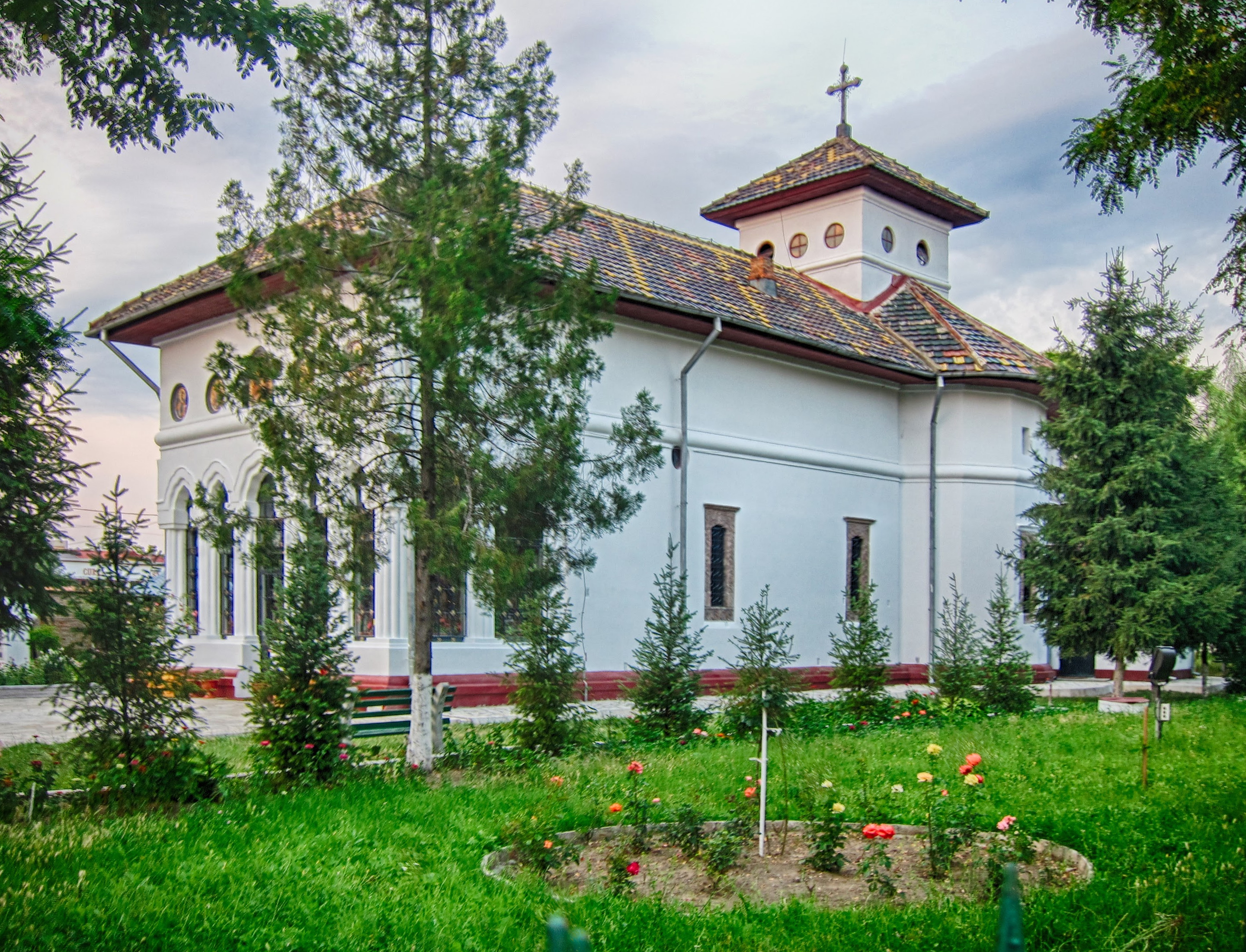 "Banului" church of the Annunciation in Buzău, RomaniaRomână: Biserica „Buna Vestire” (a „Banului”) din Buzău, România